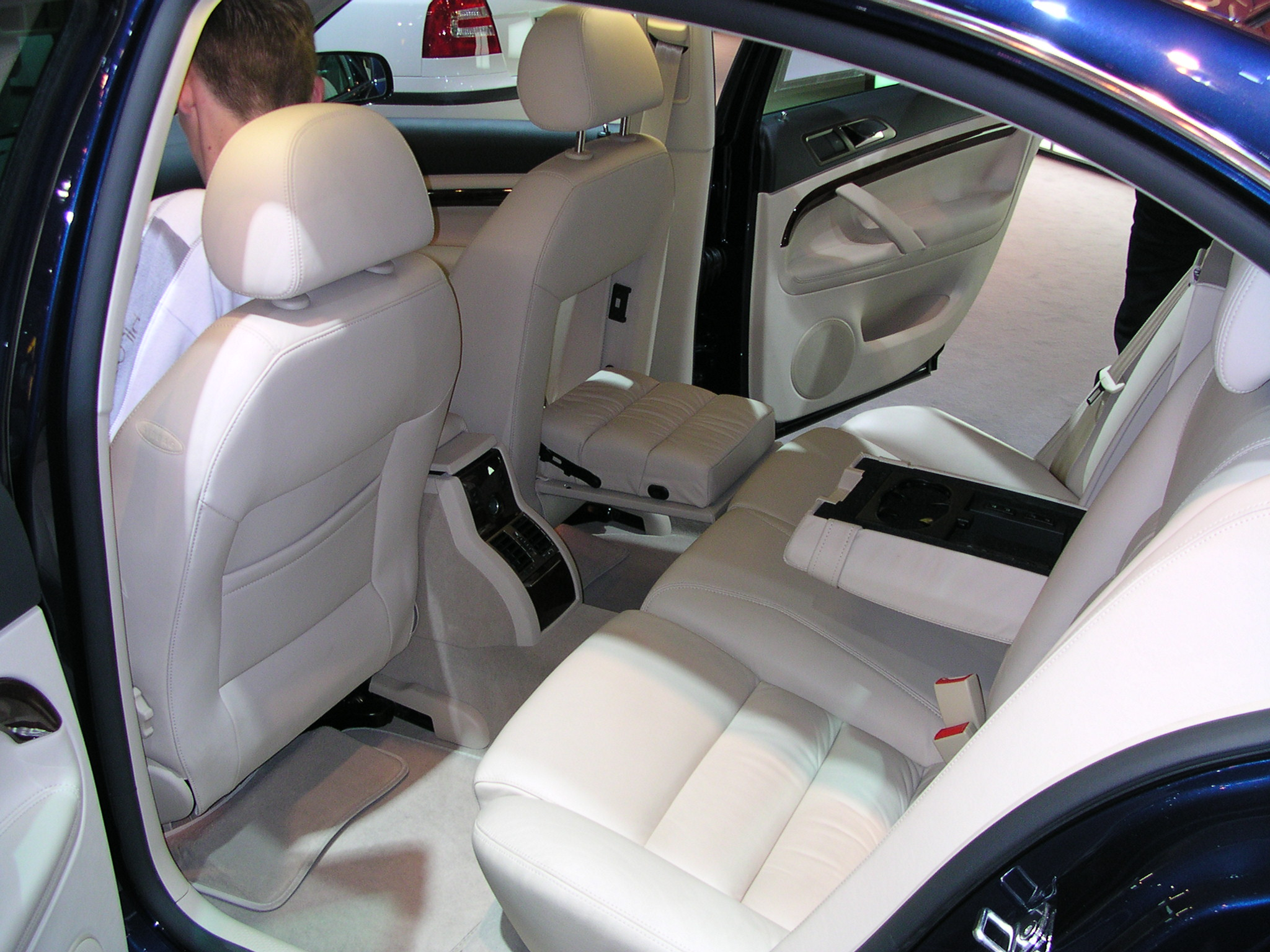 Skoda Superb